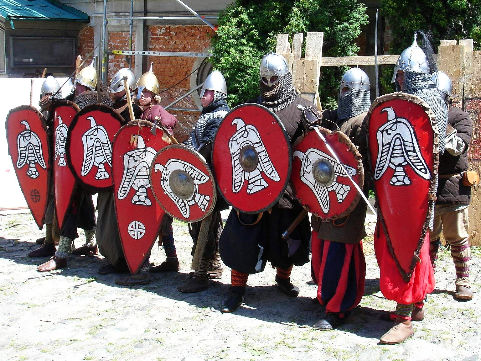 Vikings fighting (part of a festival - reenacting), photo taken in 24 June 2007 in Polen (Bielsko-Biała) by Silar